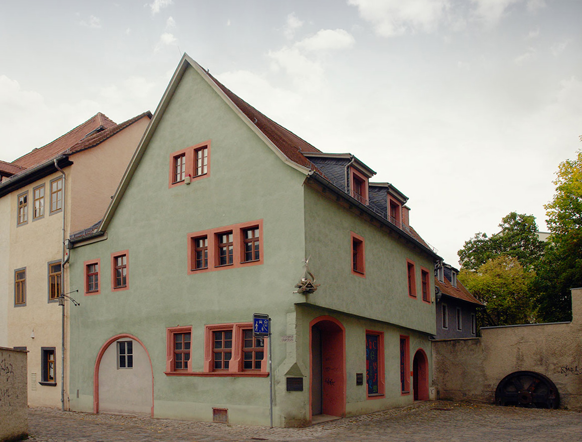 Front view of the printing museum Pavillon-Presse in Weimar (Scherfgasse/Kleine Teichgasse)